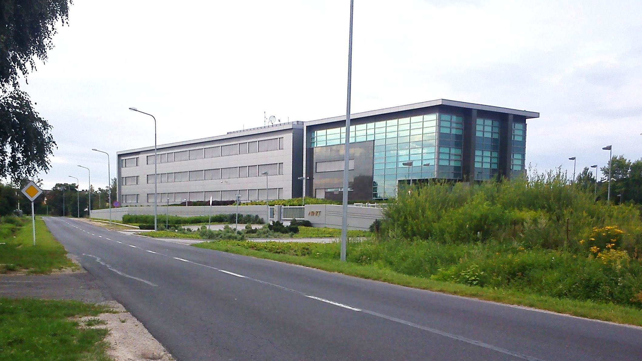 Headquartered jewelry - APART, Suchy Las.